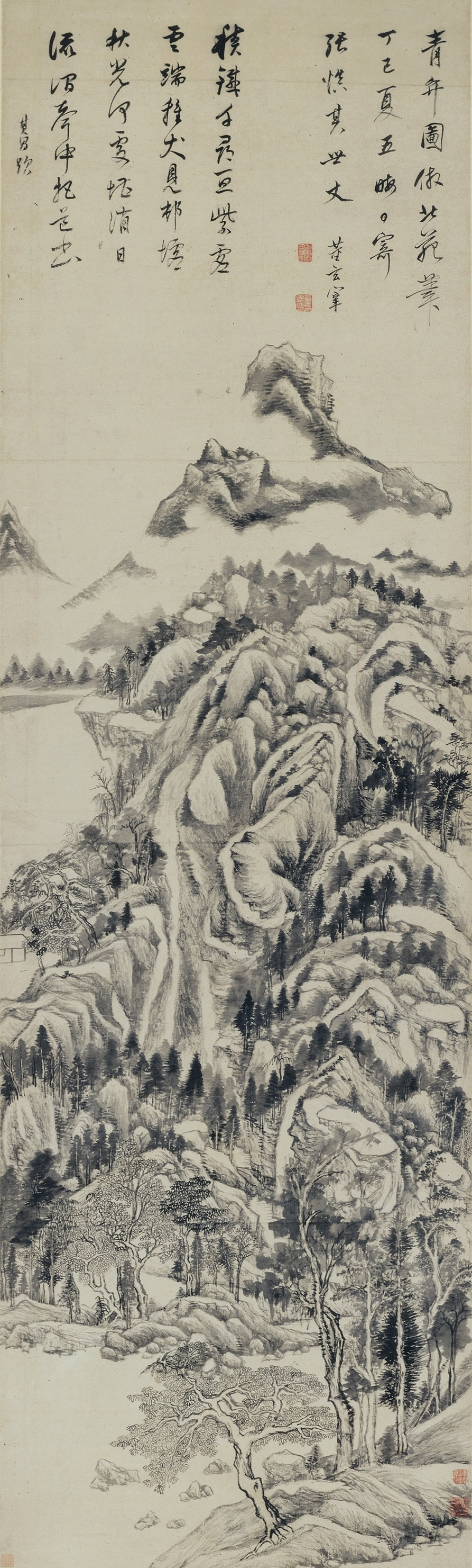 Dong_Qichang._The_Qingbian_Mountains._1617._Ink_on_paper,_hanging_scroll,_224,50_x_67,20cm. _Cleveland_Museum_of_Art